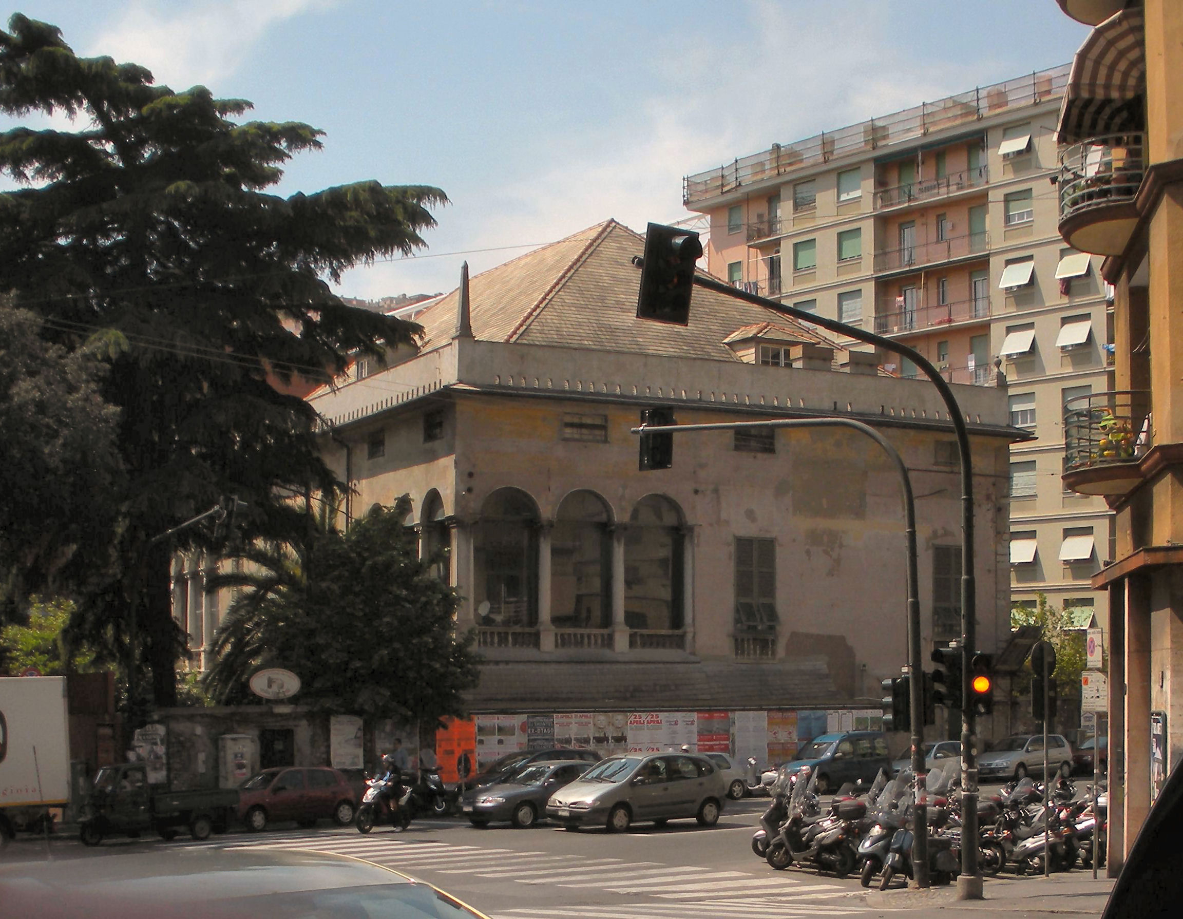 Genoa (Italy), quarter of Marassi, Villa Piantelli